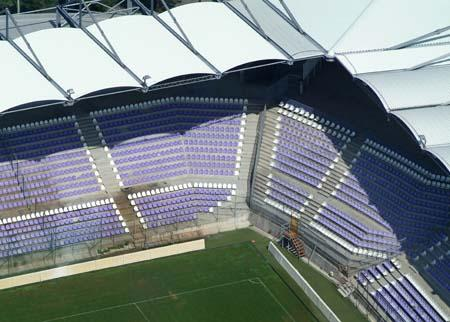 Újpest, Budapest, Hungary, aerial photography, UTE stadion